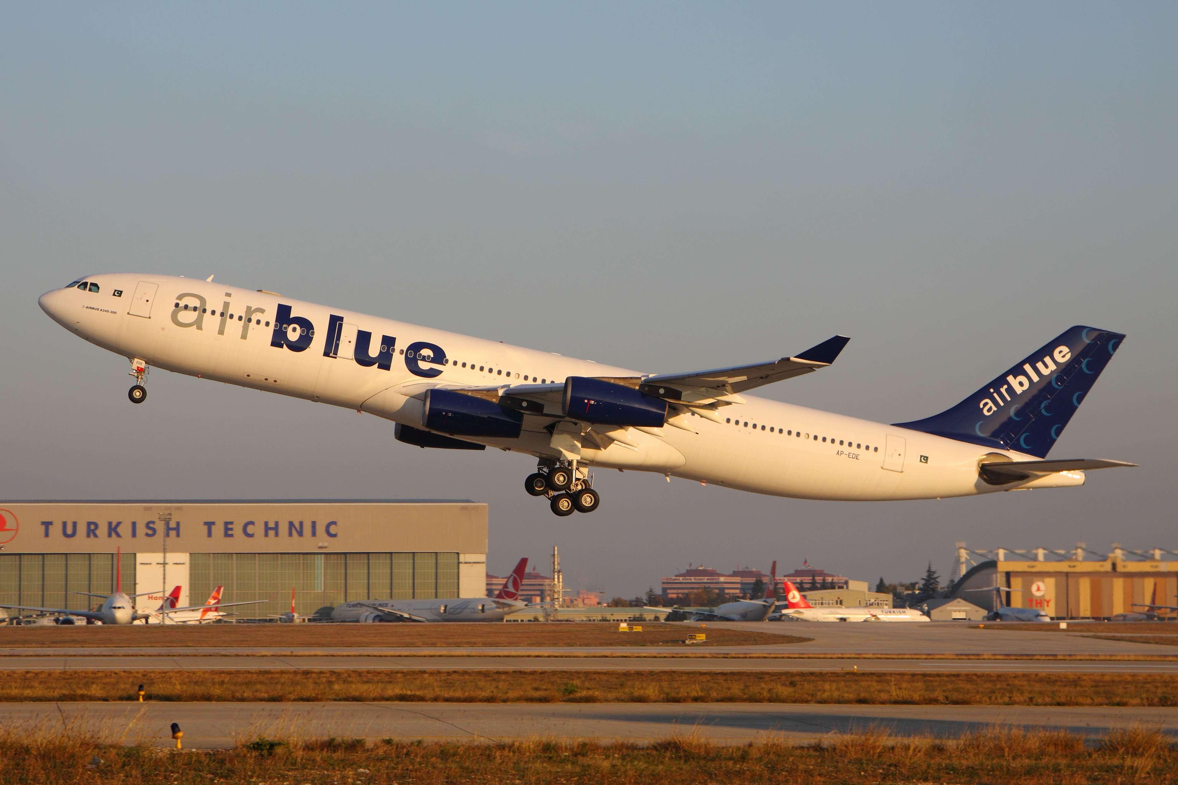 Air Blue second A340-300 departing for delivery flight after pre-delivery maintenance in Istanbul.